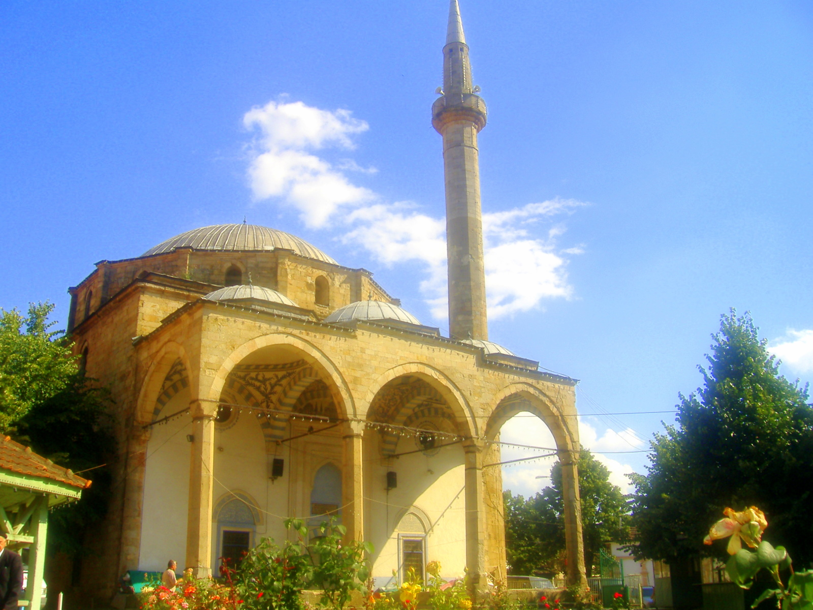 Imperial Mosque in Pristina